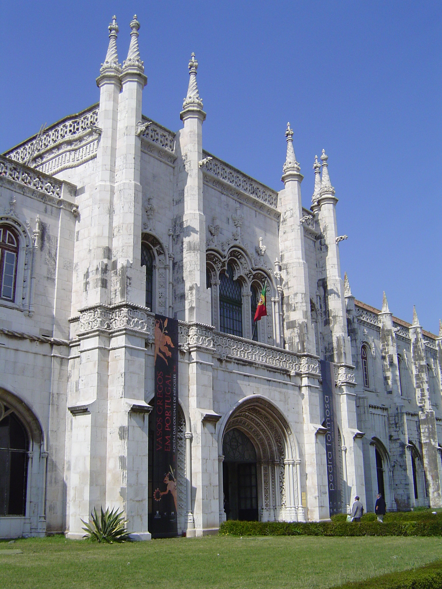 Entrance to the Archaeological Museum in Lisbon, Portugal